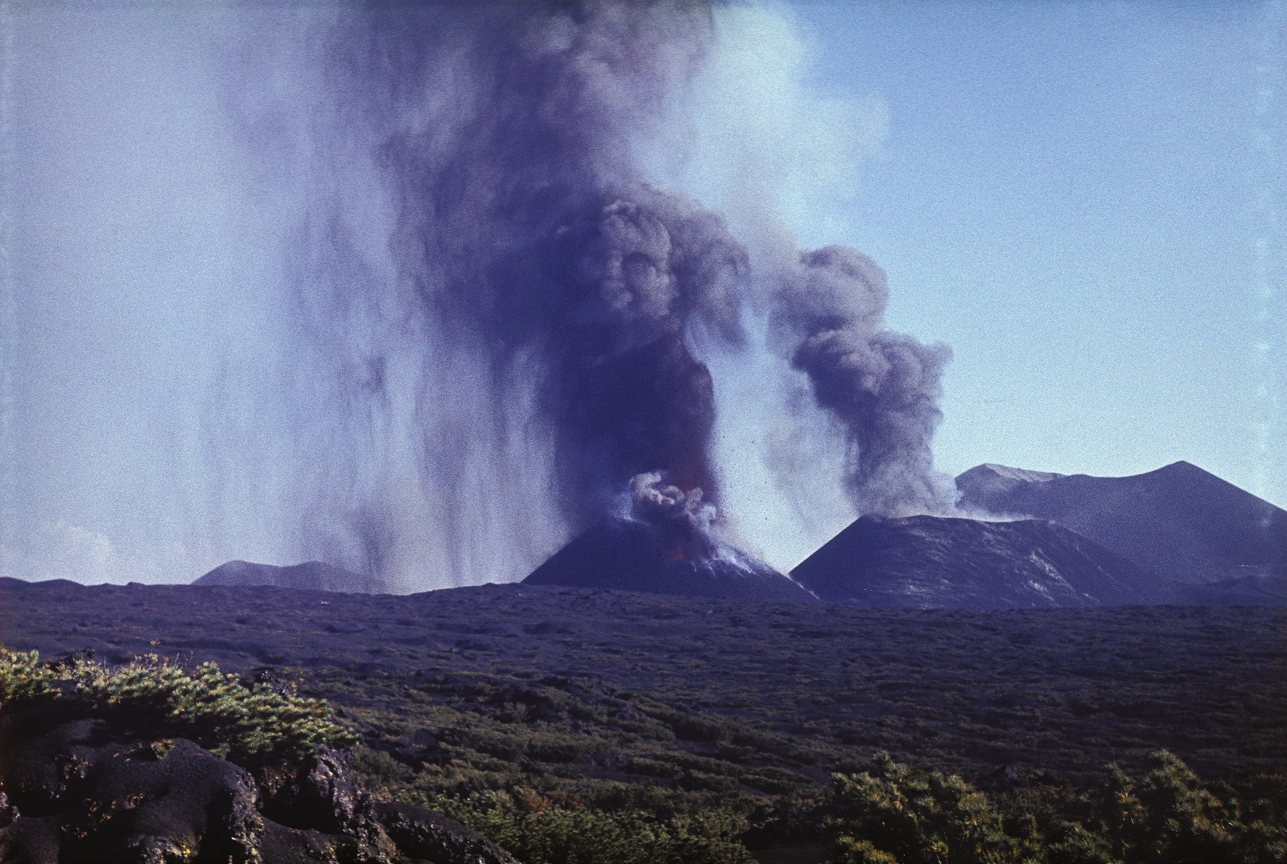 The eruption of the 2nd and 3rd lateral cones of the Northern Breach of the Great Tolbachik Fissure Eruption 1975-1976 This image is related to the protected area of Russia number 4110117